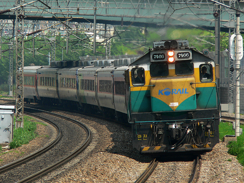 KORAIL 7400series diesel-electric locomotive